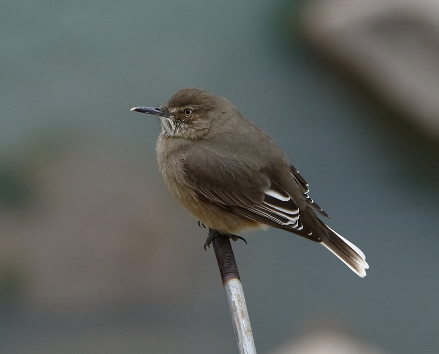 Black-billed shrike-tyrant at Road 7-Mendoza River - Las Heras - Mendoza - Argentina